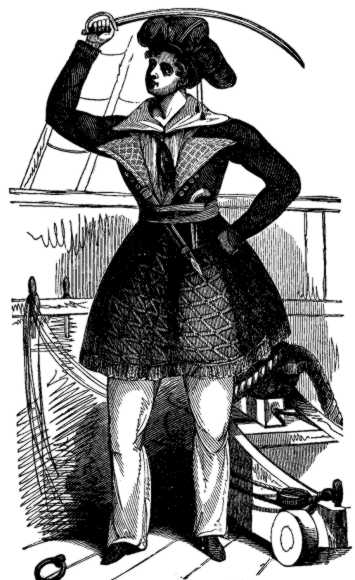 Awilda as depicted in The Pirates Own Book.